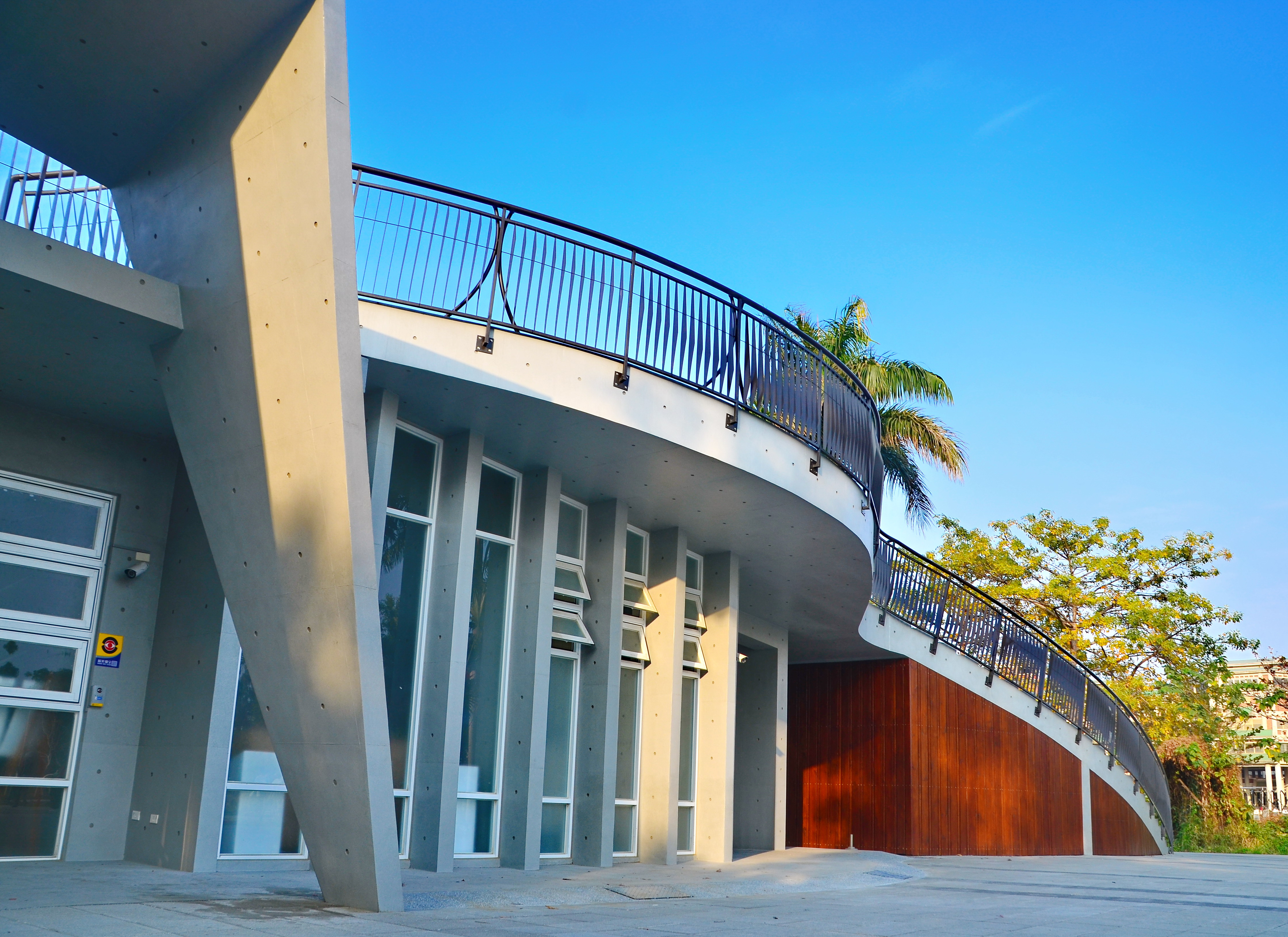 Barclay Memorial Park, Phase 2, Tainan, Taiwan.